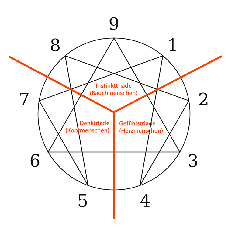 Enneagram symbol with triades - German